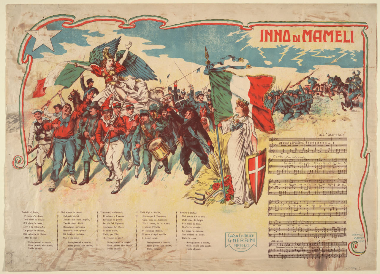 music, song and picture about "Inno di Mameli" or "Il Canto degli Italiani"